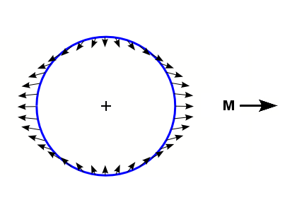 Impression of the field of the tidal force.